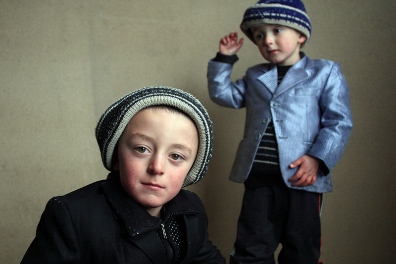 Yaghnobi People